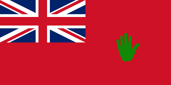 Sachin State Merchant Flag: a Red Ensign with a green Hand of Fatima